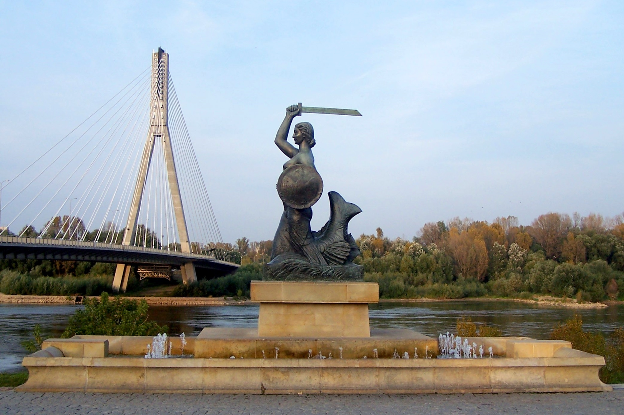 Monument of the Warsaw Mermaid — on the bank of Vistula river (22.09.2009)